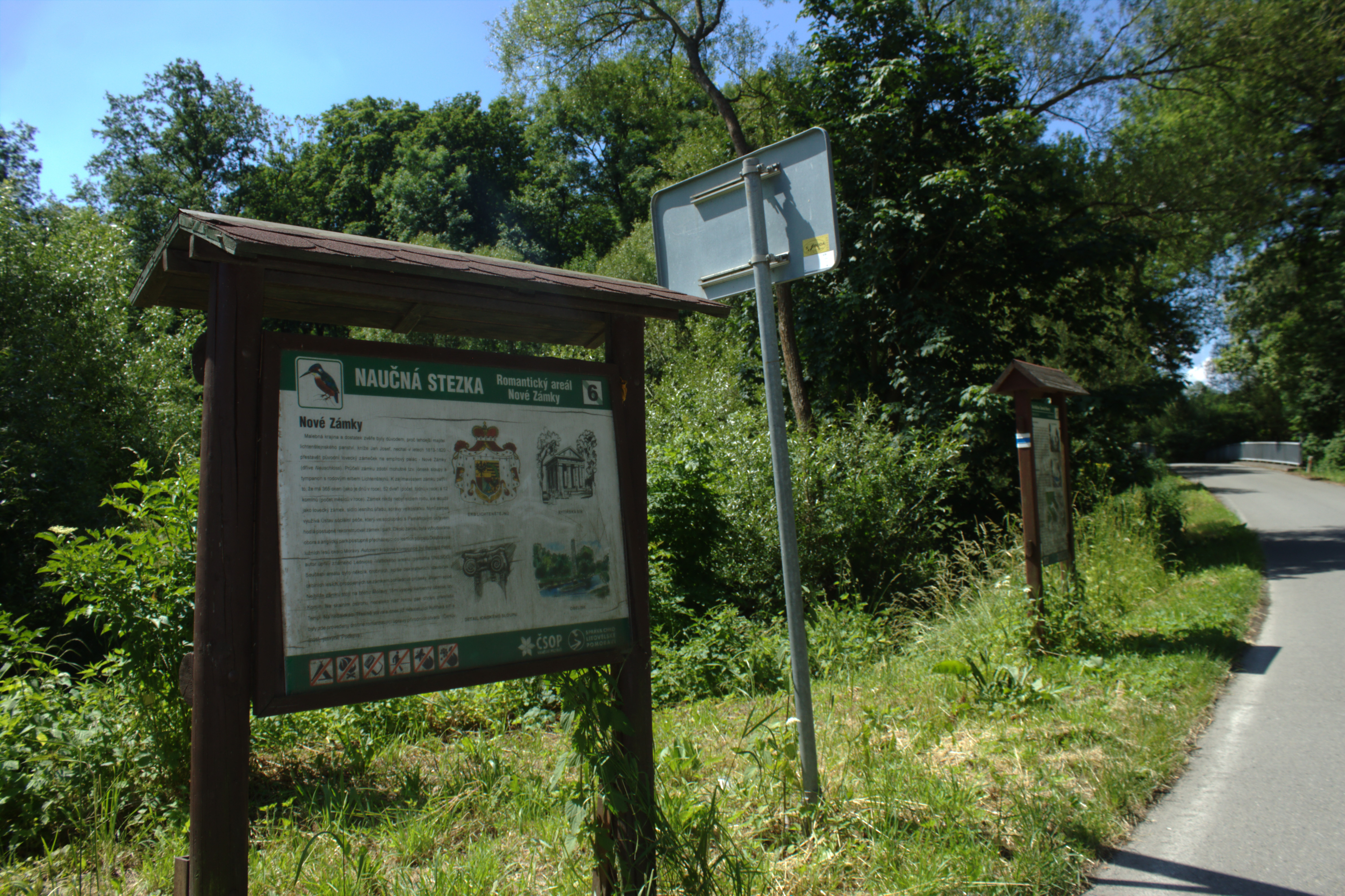 An educationa trail in the village of Nové Zámky near Litovel, Olomouc Region, CZ